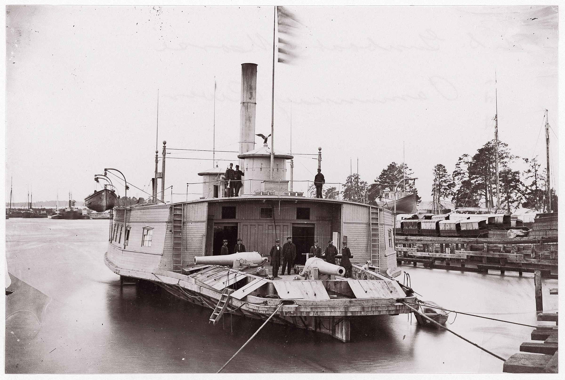 U.S. Naval gunboat Commodore Perry on the Pamunkey River, sometime between 1861–65. Provenance: Loyal Legion, Boston Chapter, Commandery of the State of Massachusetts